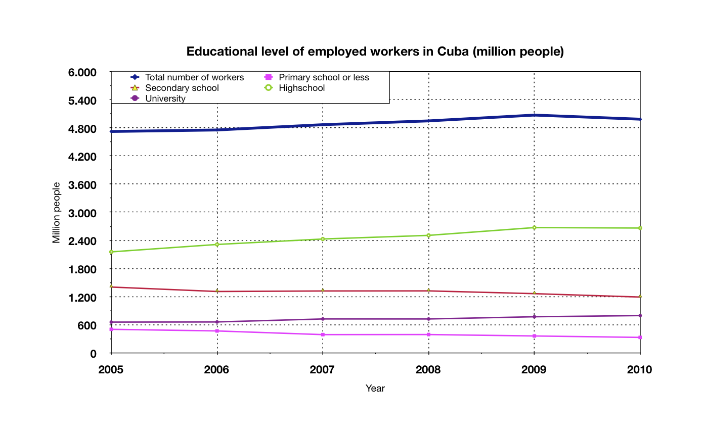 Educational level of employed workers in Cuba (million people, 2005-2010) by current Cuban statistics